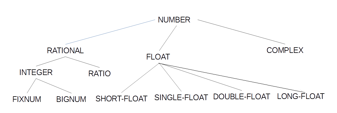 Fragment of Common Lisp programming language types hierarchy: numerical types.